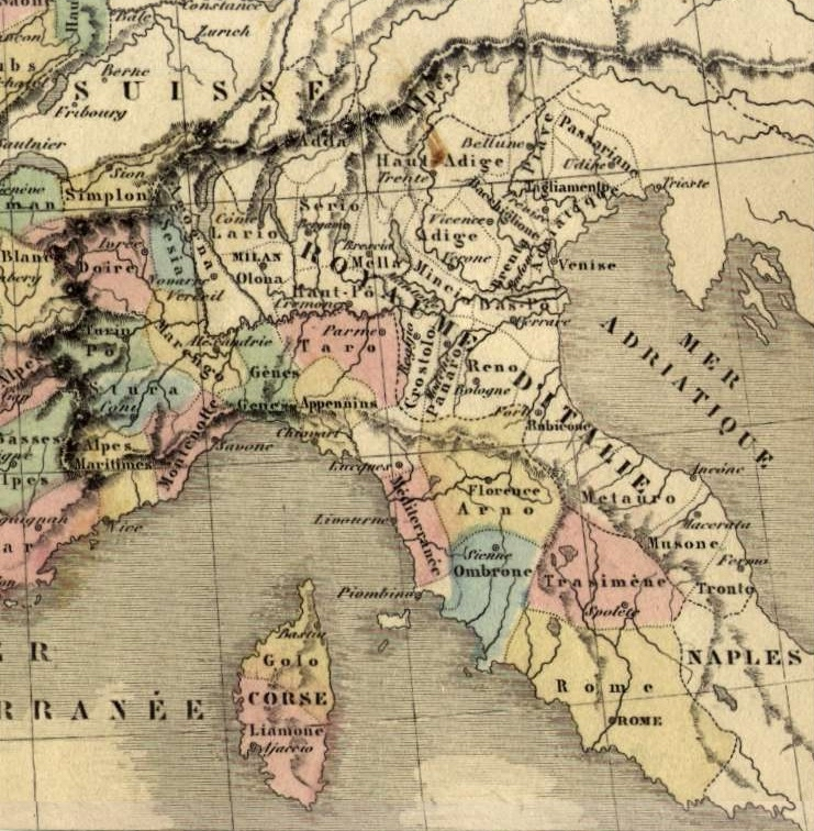 Departements in Italy during Napoleonic rule (in 1811 precisely).